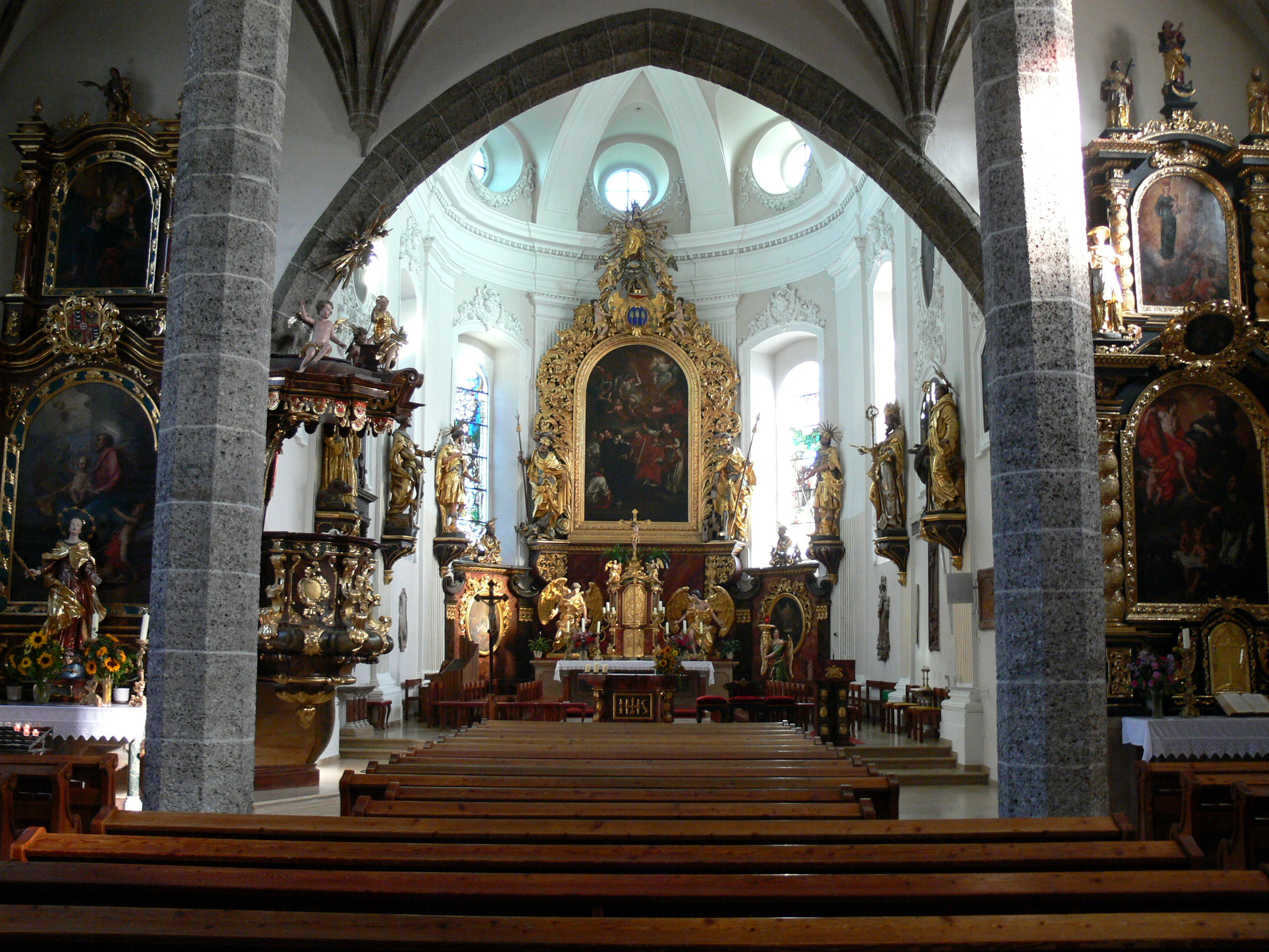 Altmünster ( Upper Austria ). Saint Benedict parish church: Interior - View to the presbytery ( 1625-1629 )